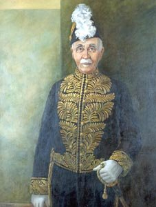 William L. Walsh (1857-1938)